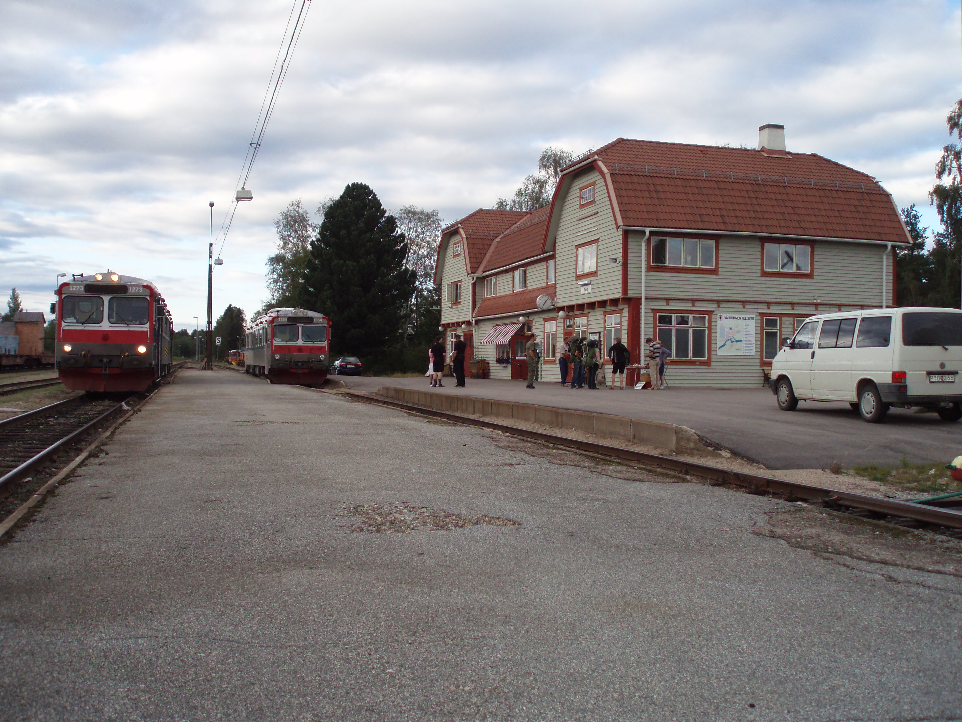 The railway station in Sveg, Härjedalen municipality, Sweden. Photo taken by me - User:Cucumber in aug. 2006.